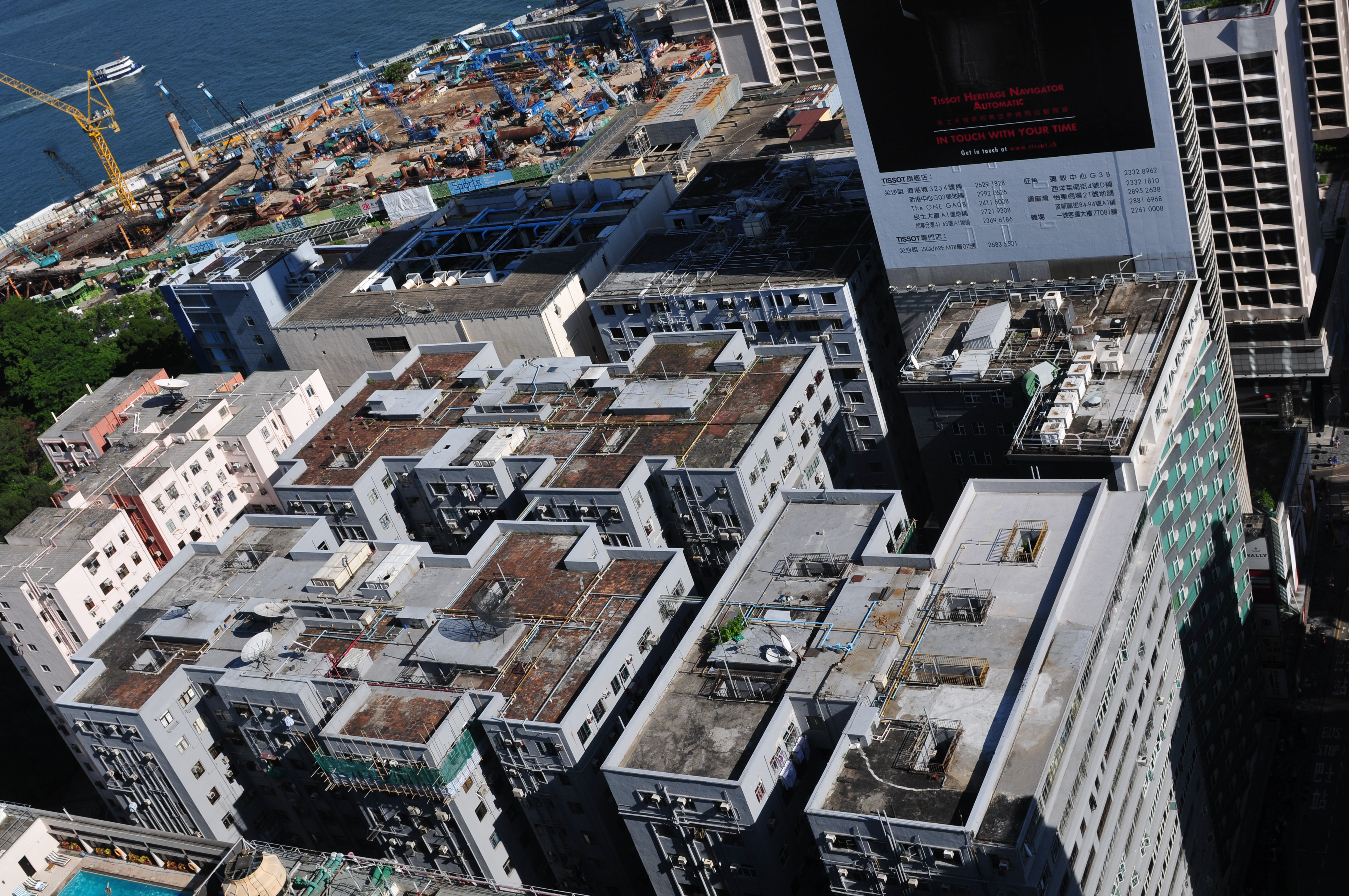 Hongkong, Chungking Mansions from top